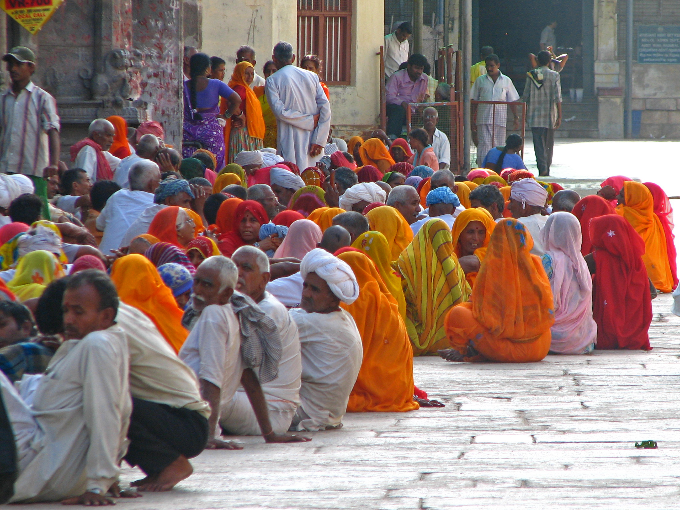 A large group of brightly-garbed Rajasthani pilgrims awaiting the temple to re-open.